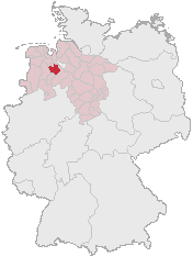 Locator map of district of Landkreis Oldenburg inbLower Saxony in Germany (grey scheme)